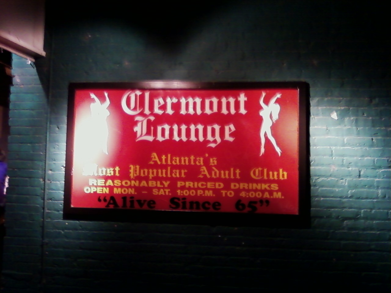 Definitely a dive, but in a very, very cool way.